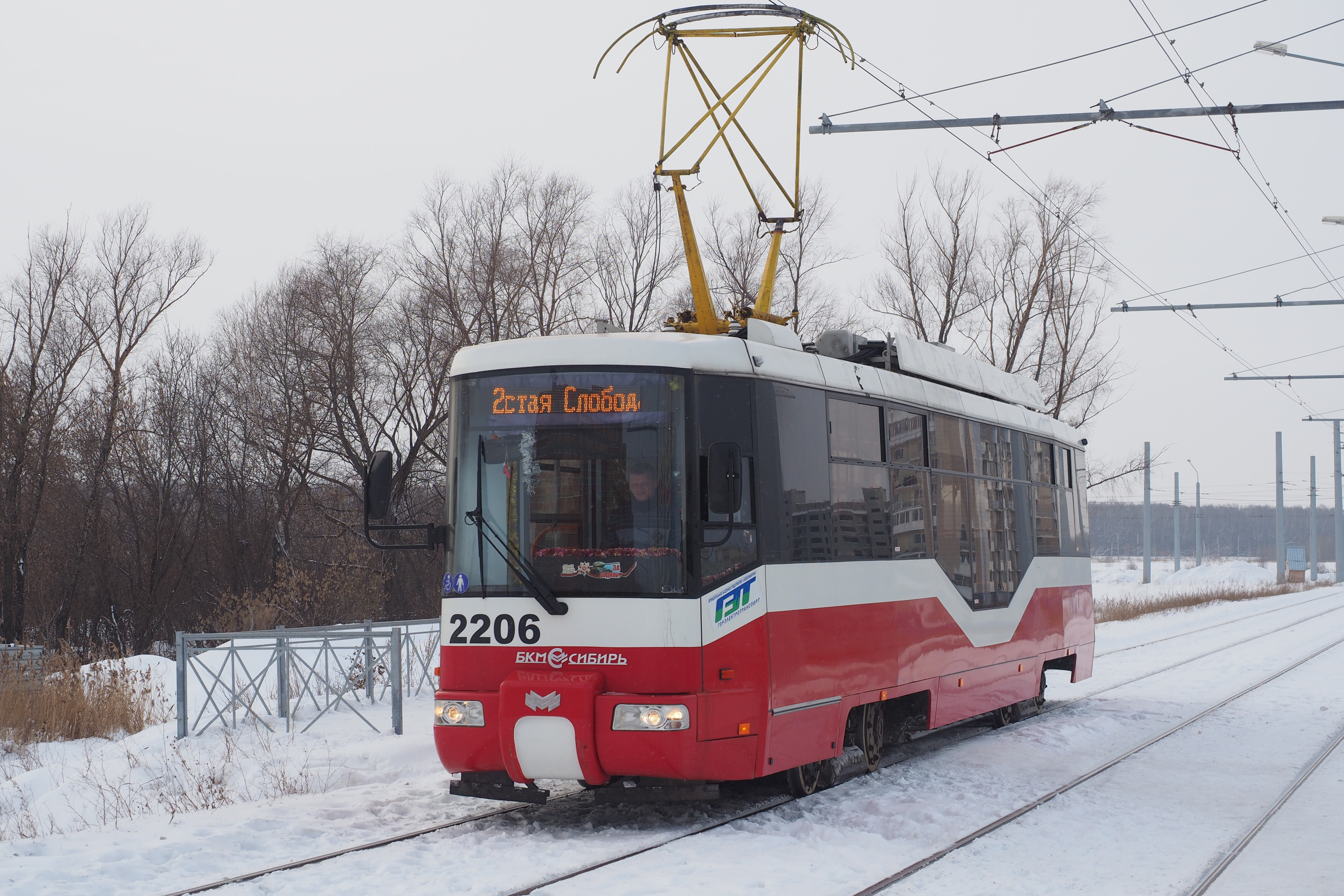 Novosibirsk tram